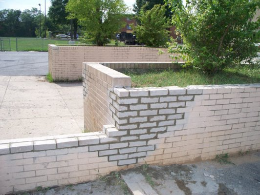 Poor quality masonry repair work done by Maryland based company "A Thru Z Striping".